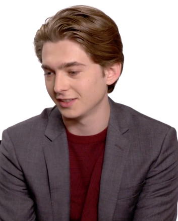 Austin Abrams in a 2018 interview